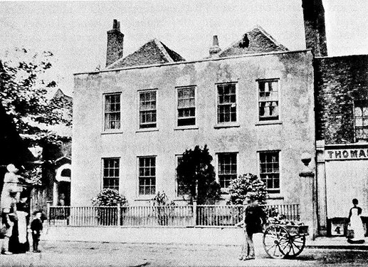 Poe's school at Stoke-Newington, England. From a print made about 1860.